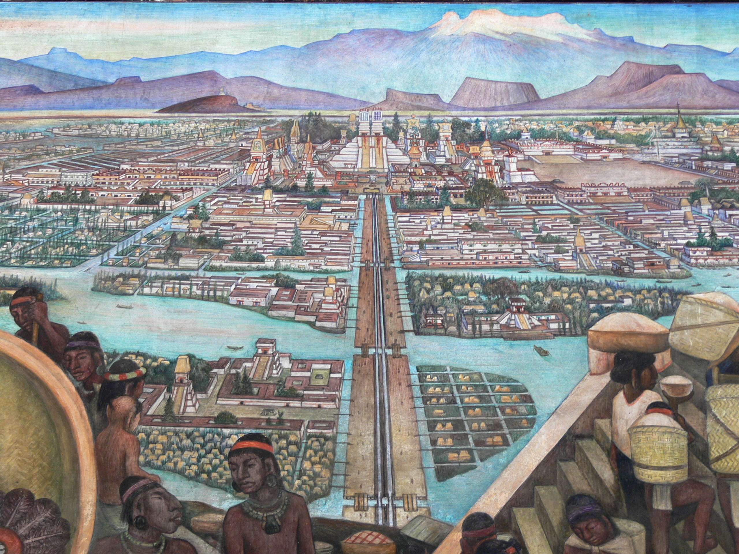 Mexico City - Palacio Nacional. Mural by Diego Rivera showing the life in Aztec times, i.e., the city of Tenochtitlan.